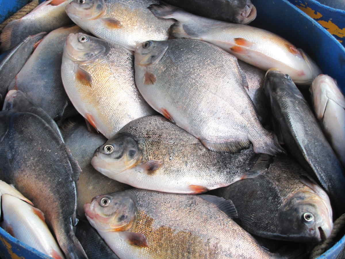 Fish reared in cages. My Tho, Mekong delta, Vietnam. Photograph by Bill Bradley. User:Billbeeebillbeee (User talk:Billbeeetalk) 02:29, 9 April 2009 (UTC) Feel free to use it, just credit me as the photographer. You can contact me through my website if you would like more photos of the same subject